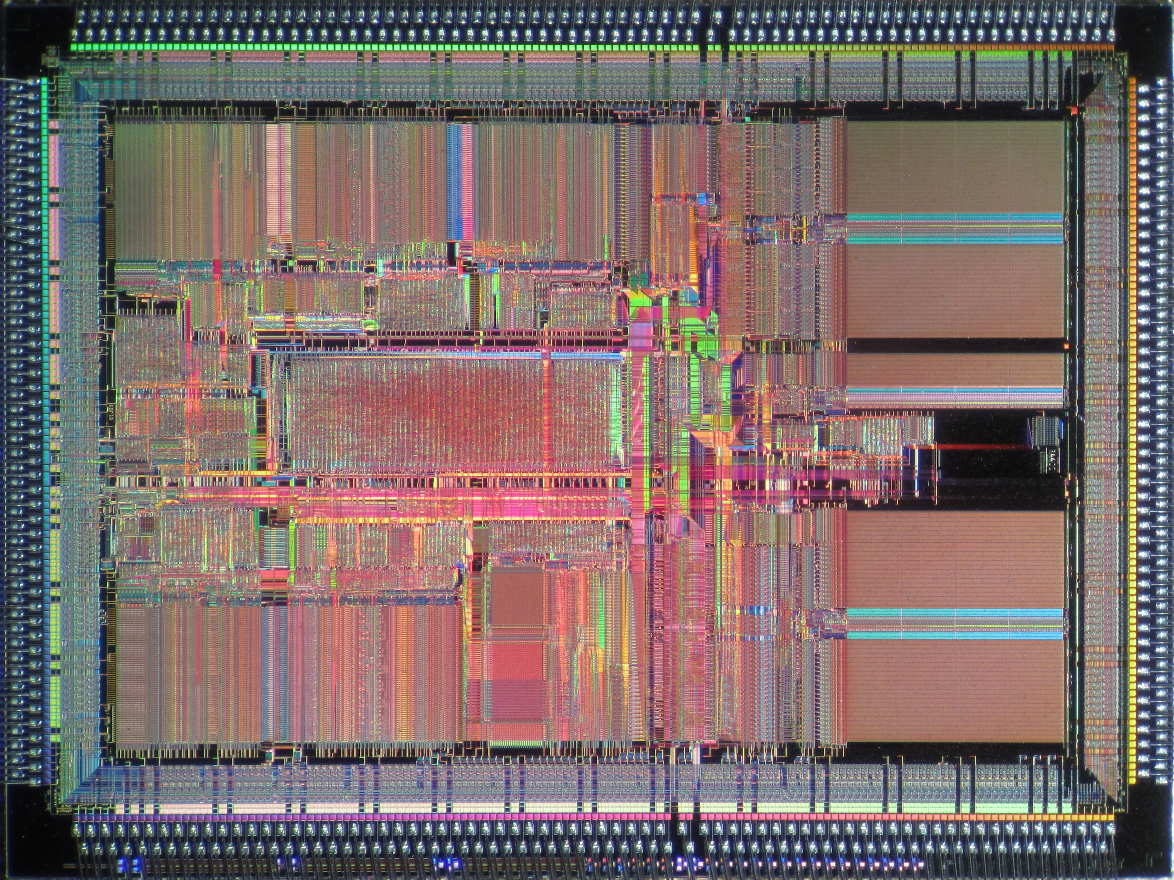 Die shot of NEC VR4400MC MIPS microprocessor (D30412LRJ-200).